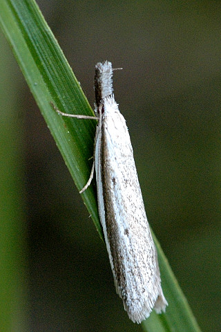 Pleurota bicostella from Commanster, Belgian High Ardennes .